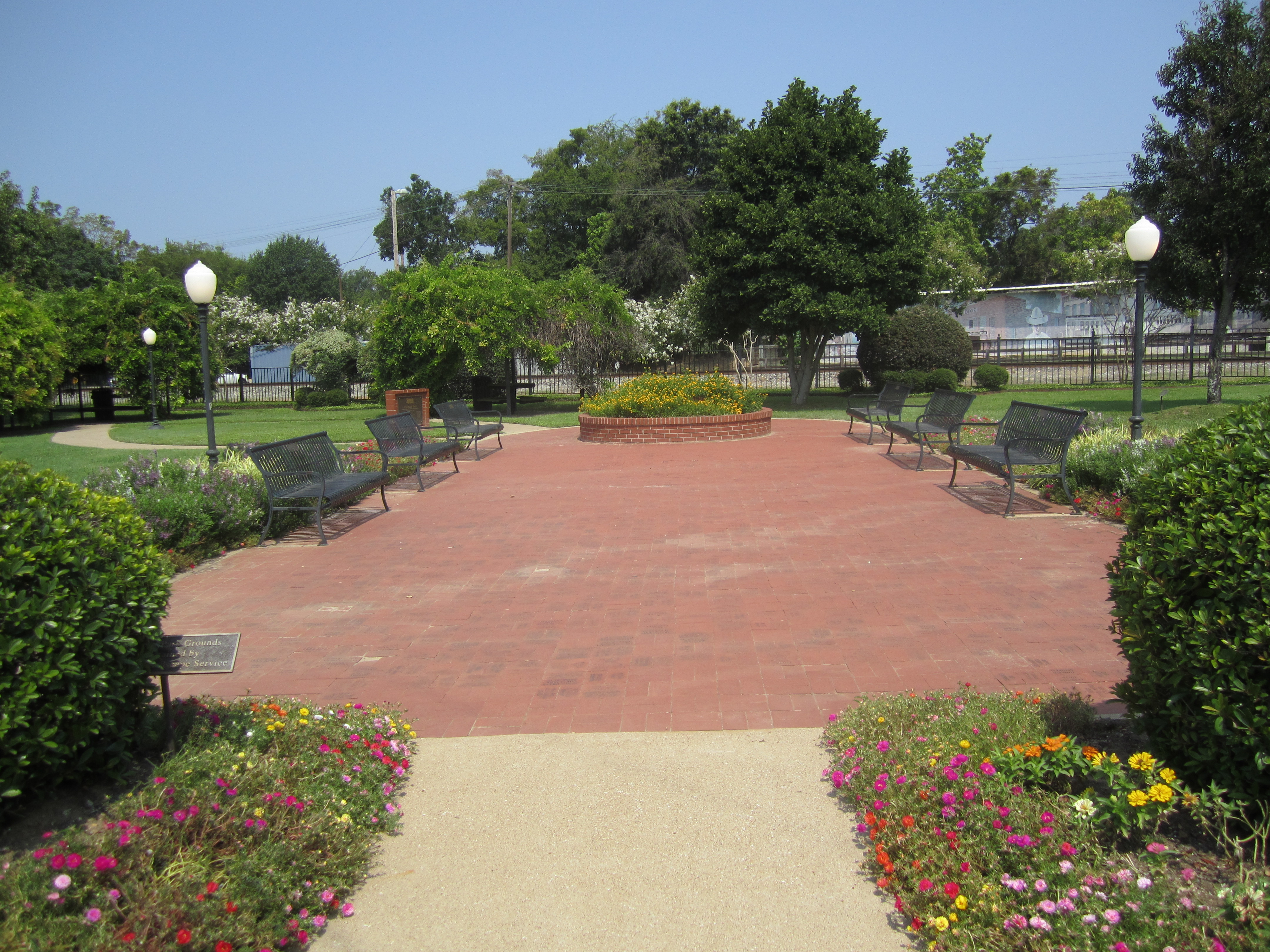 I took photo with Canon camera in Athens, TX.